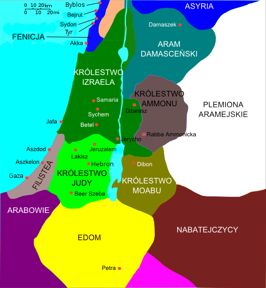 Levant in 830 BC